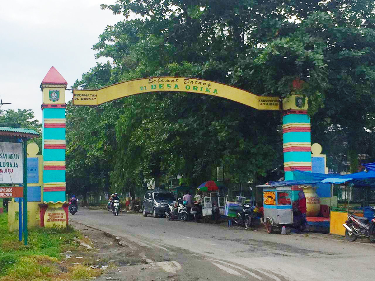 welcome gate to Orika, Pulau Rakyat, Asahan